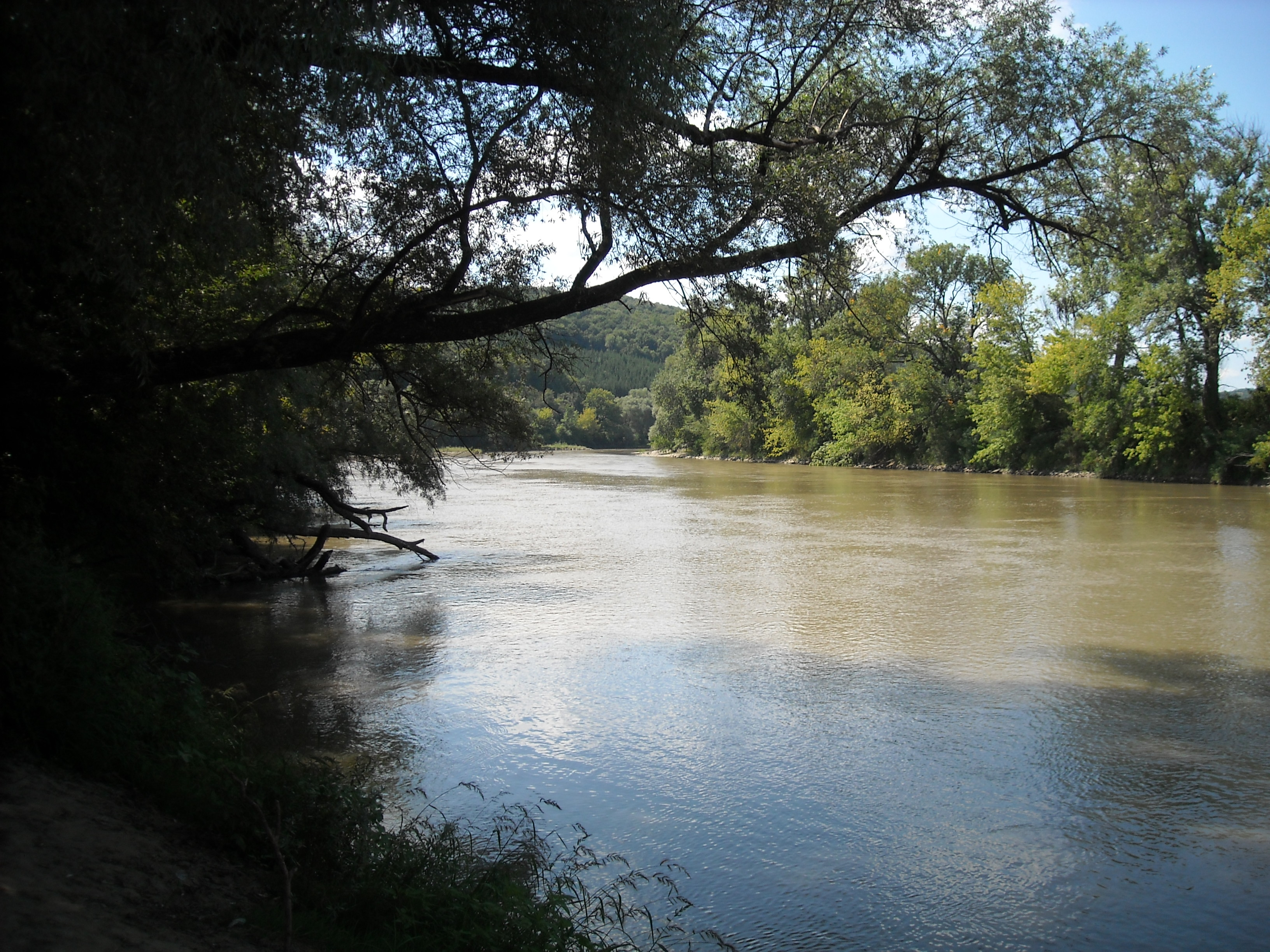 the Mureș river between Chelmac and Ususău